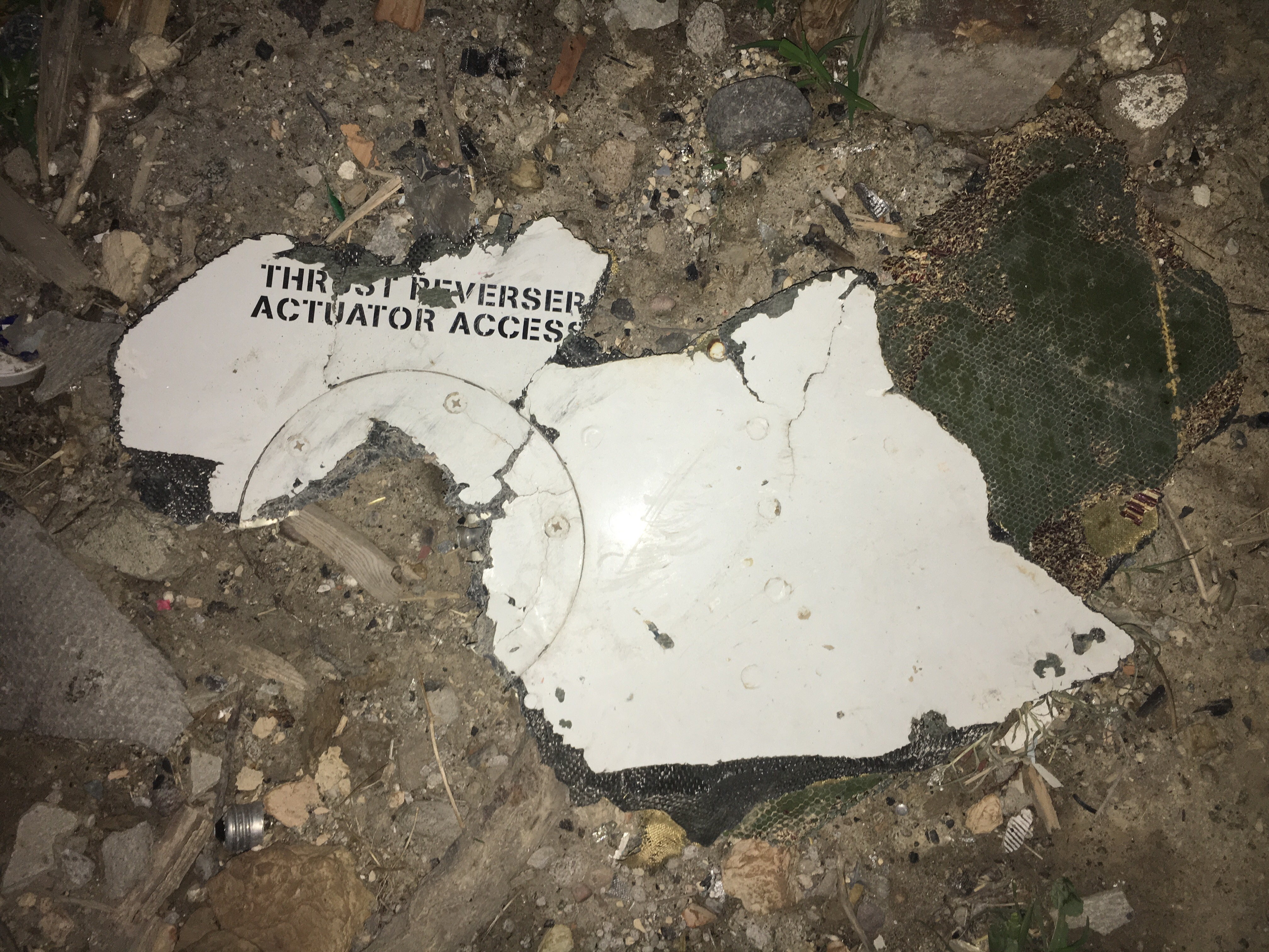 A piece of wreckage at the crash site of Turkish Airlines Flight 6491 as seen on 30 May 2017, almost five months after the crash.